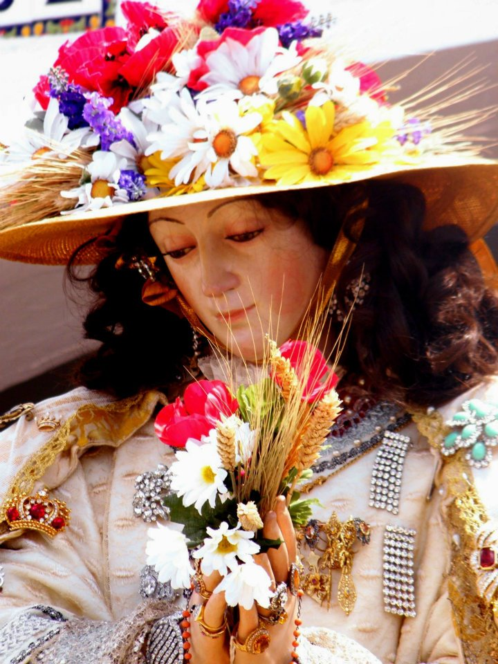 Bello rostros de Nuestra Señora tras su restauración en 2012.